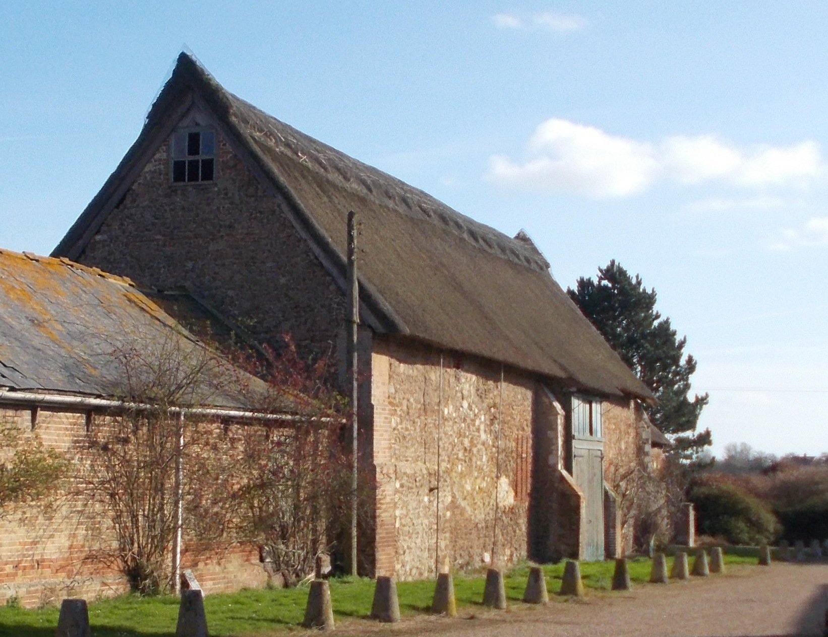 Former reredorter of Butley Priory, Suffolk, now in use as a barn